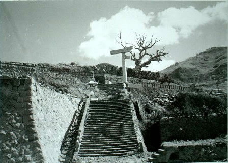 Sannō Shrine, Nagasaki: This image shows the shrine's second torii and camphor tree outline, 1945 Context note:One of the two pillars of the Sanno Shrine Torii was toppled by the A-bomb blast. The blast also blew away the branches and leaves of the two camphor trees in the precincts of the Shrine, which were then more than 500 years old. At that time, it was feared that the trees might wither and die; however, they gradually began to recover, and now are thickly covered with leaves and branches.